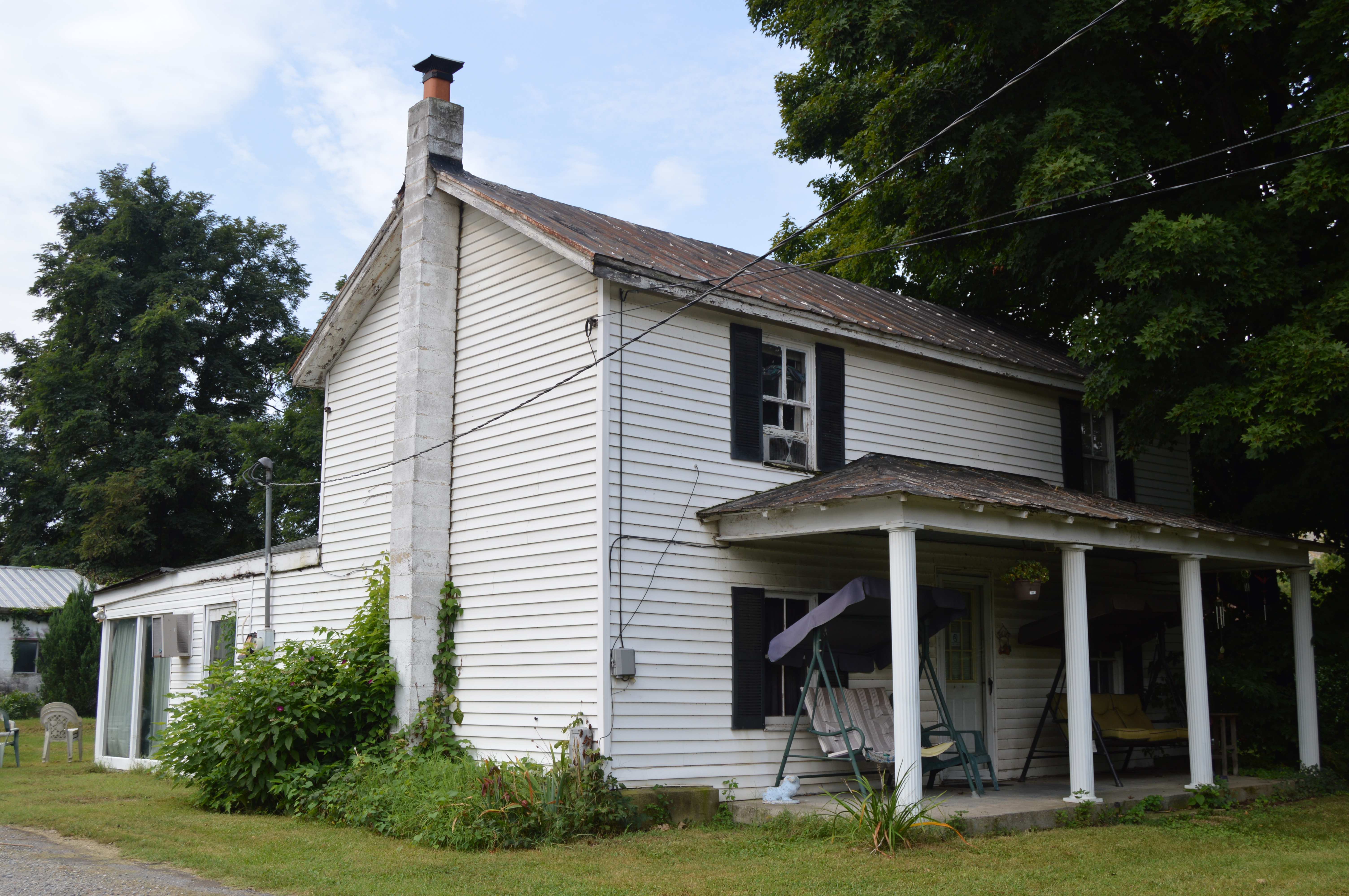 Front and eastern end of the house located on the southwestern corner of the intersection of Loving and Walthall Streets in Lafayette, Virginia, United States. It is part of the Lafayette Historic District, a historic district that is listed on the National Register of Historic Places.